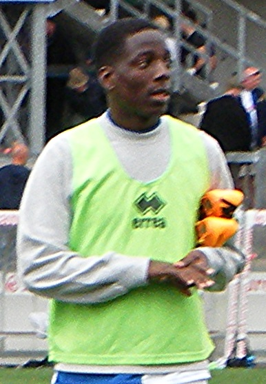 Shaquille Hunter. Image cropped from original at flickr.